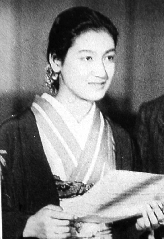 Setsuko Hara (1920–)